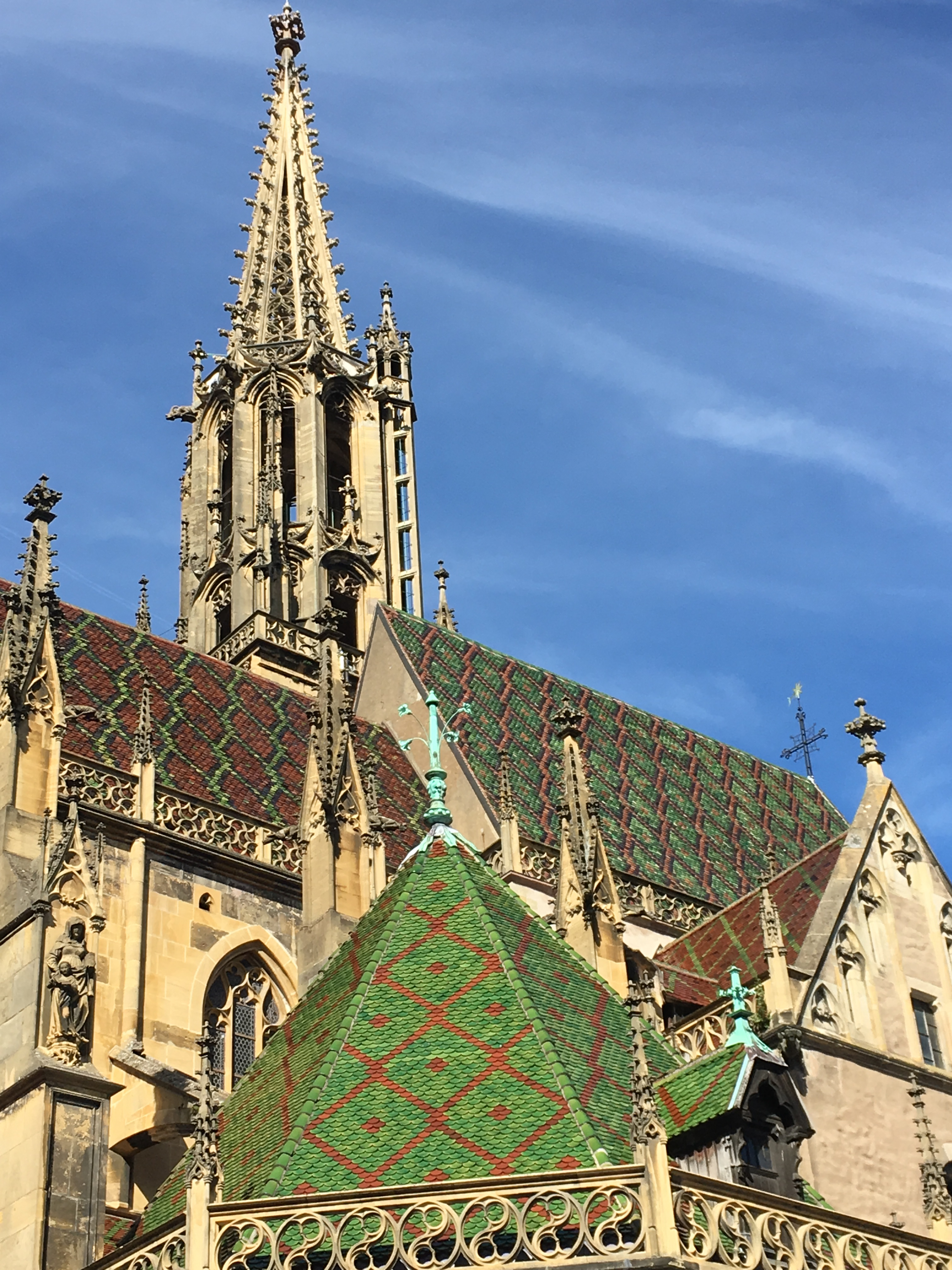 The south side of St. Theobald's church in Thann, France, highlighting the colorful roof and the spire